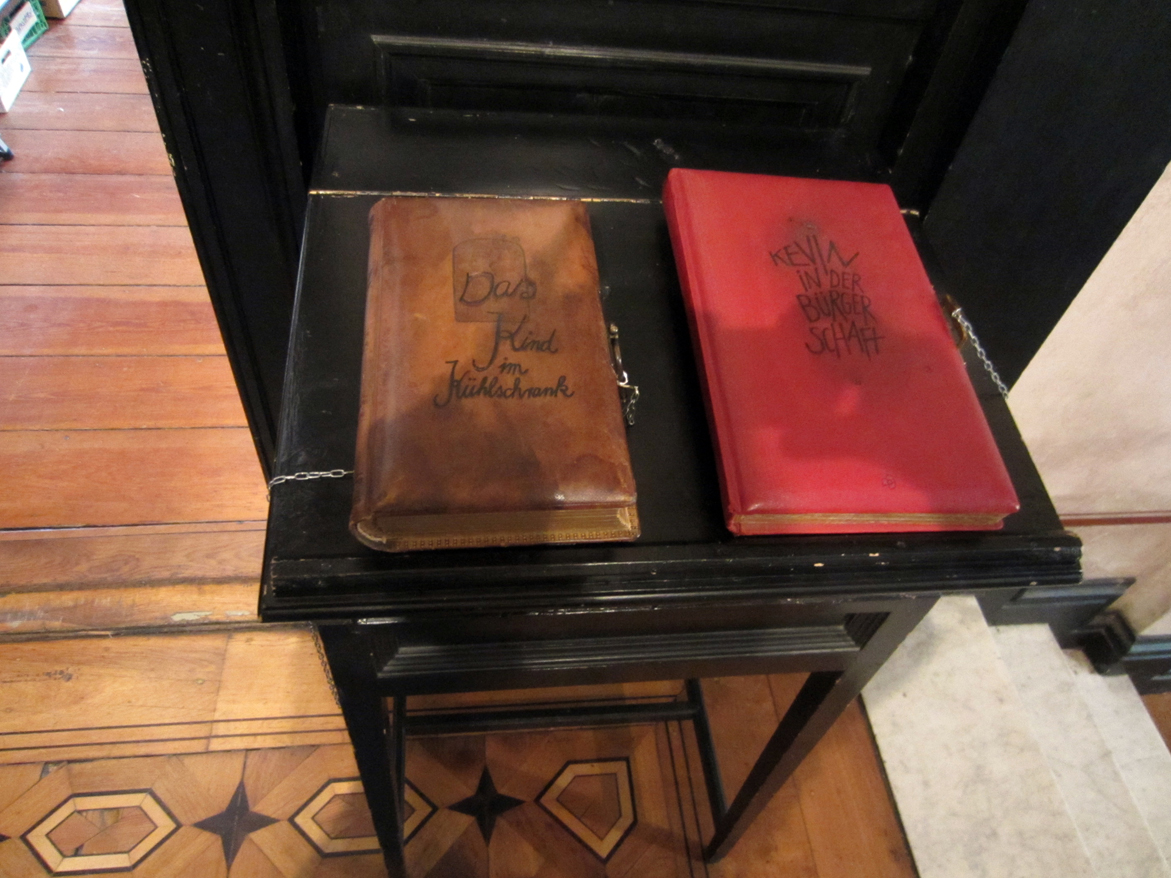 Artistbooks as part of Kevin-project by German artist Yolanda Feindura from 2008 onwards